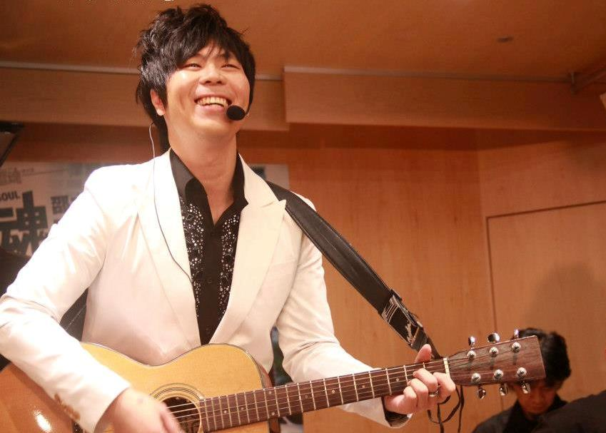 邵大倫漂浪的靈魂專輯慶功Unplugged演唱會